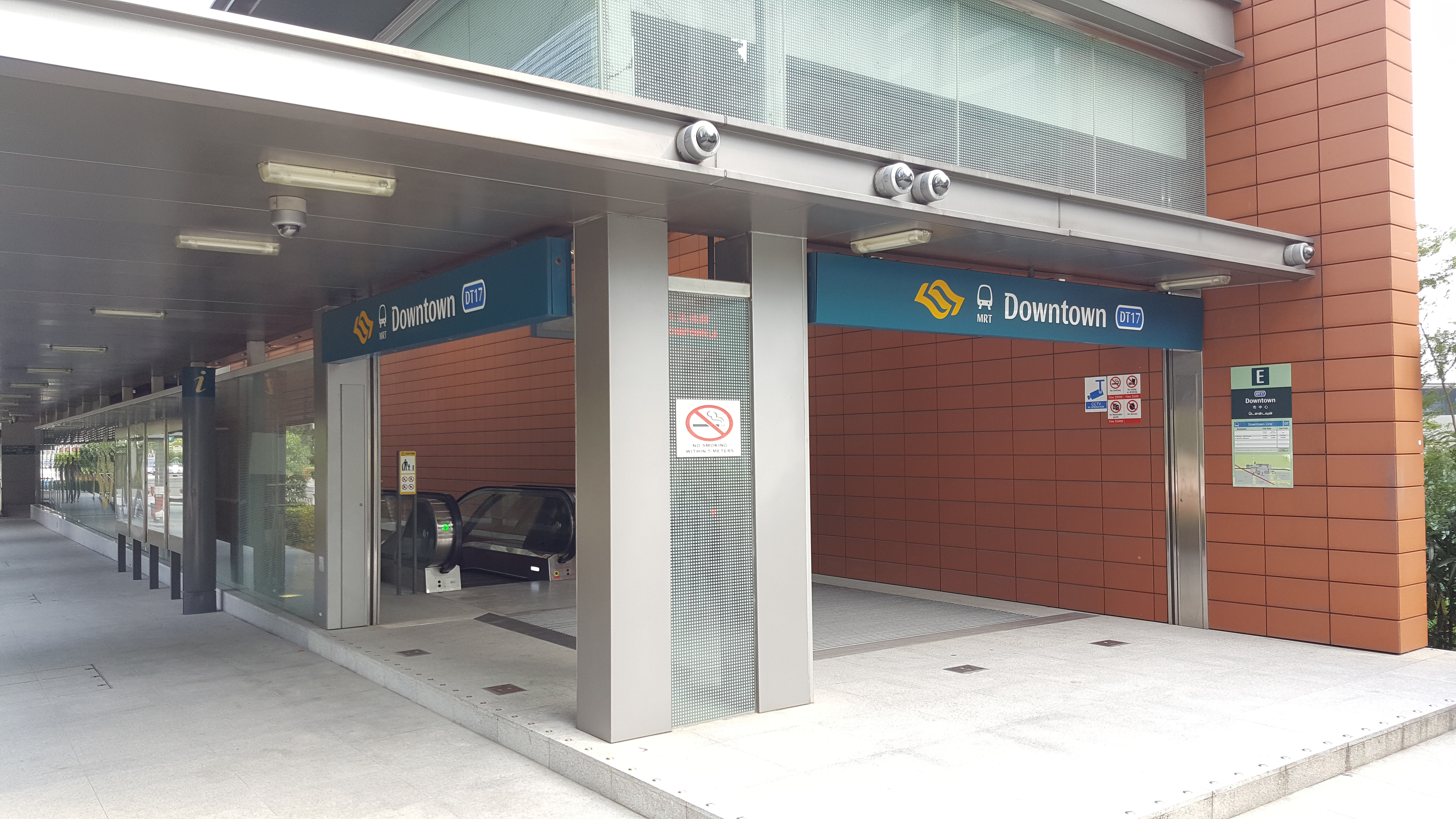 A closer view of Exit E of Downtown MRT Station